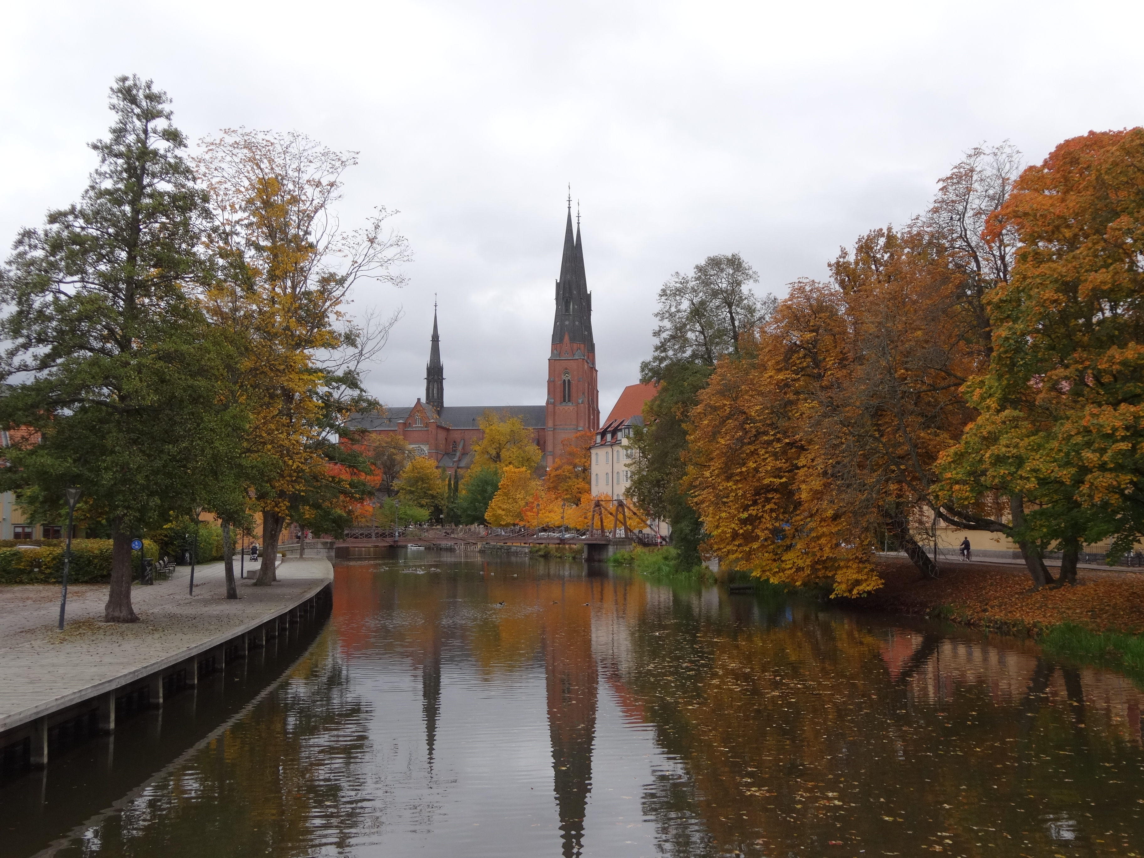 Uppsala cathedral reflecting in river Fyris